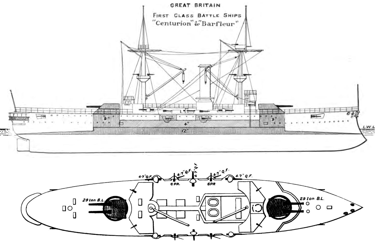 Right elevation and deck plan diagrams depicting British Centurion class battleships HMS Centurion and HMS Barfleur.